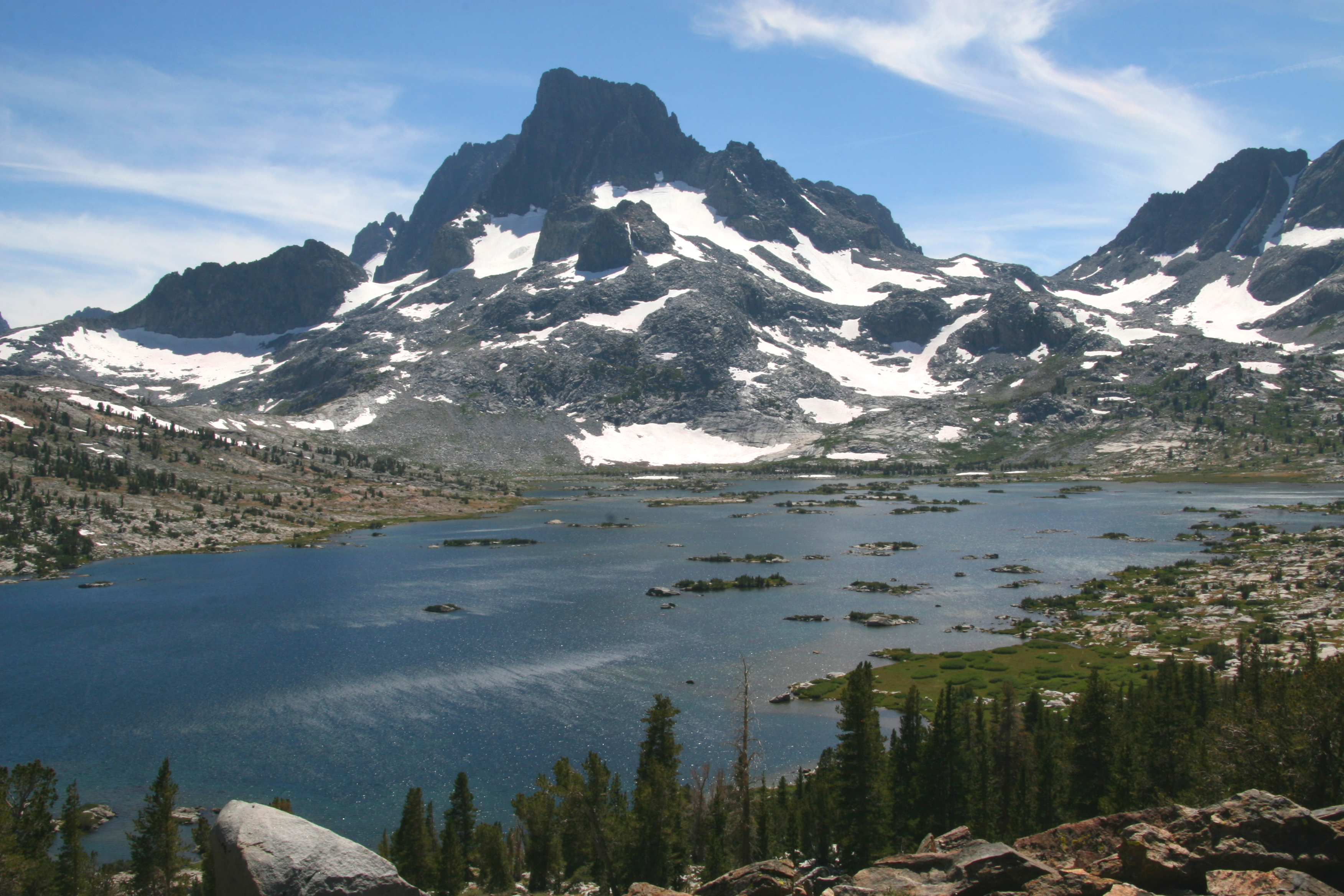 Thousand Island Lake (2997m) and Banner Peak (3943m), looking southwest from John Muir Trail/Pacific Crest Trail at 3080m, in the Ansel Adams Wilderness of the Sierra Nevada, California.